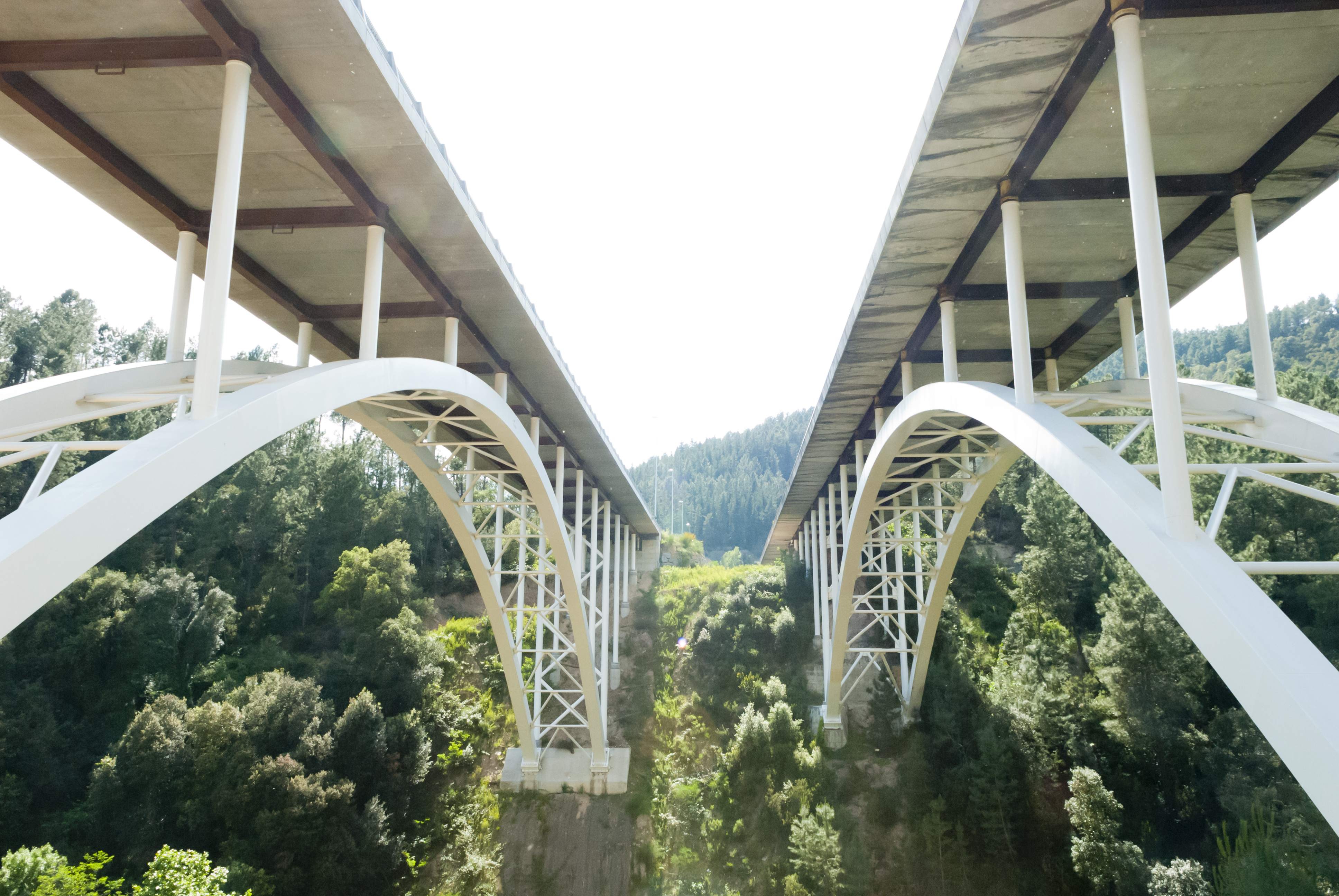 Image of Viaducte de les Foses (Catalonia).